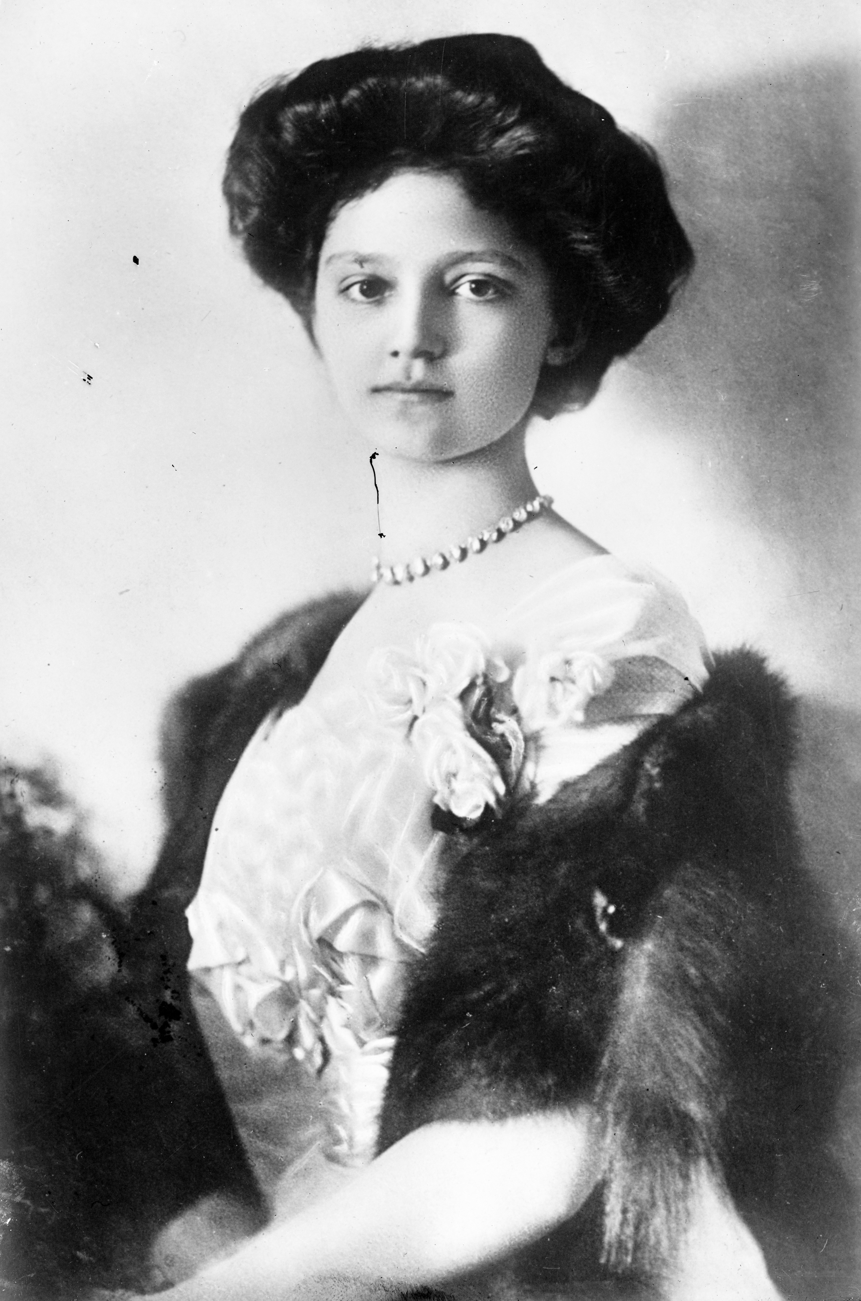 Zita, HRH Empress of Austria, Princess of Bourbon and Parma